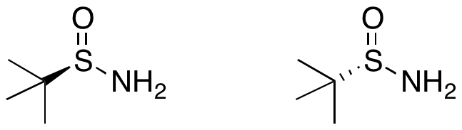 chemdraw